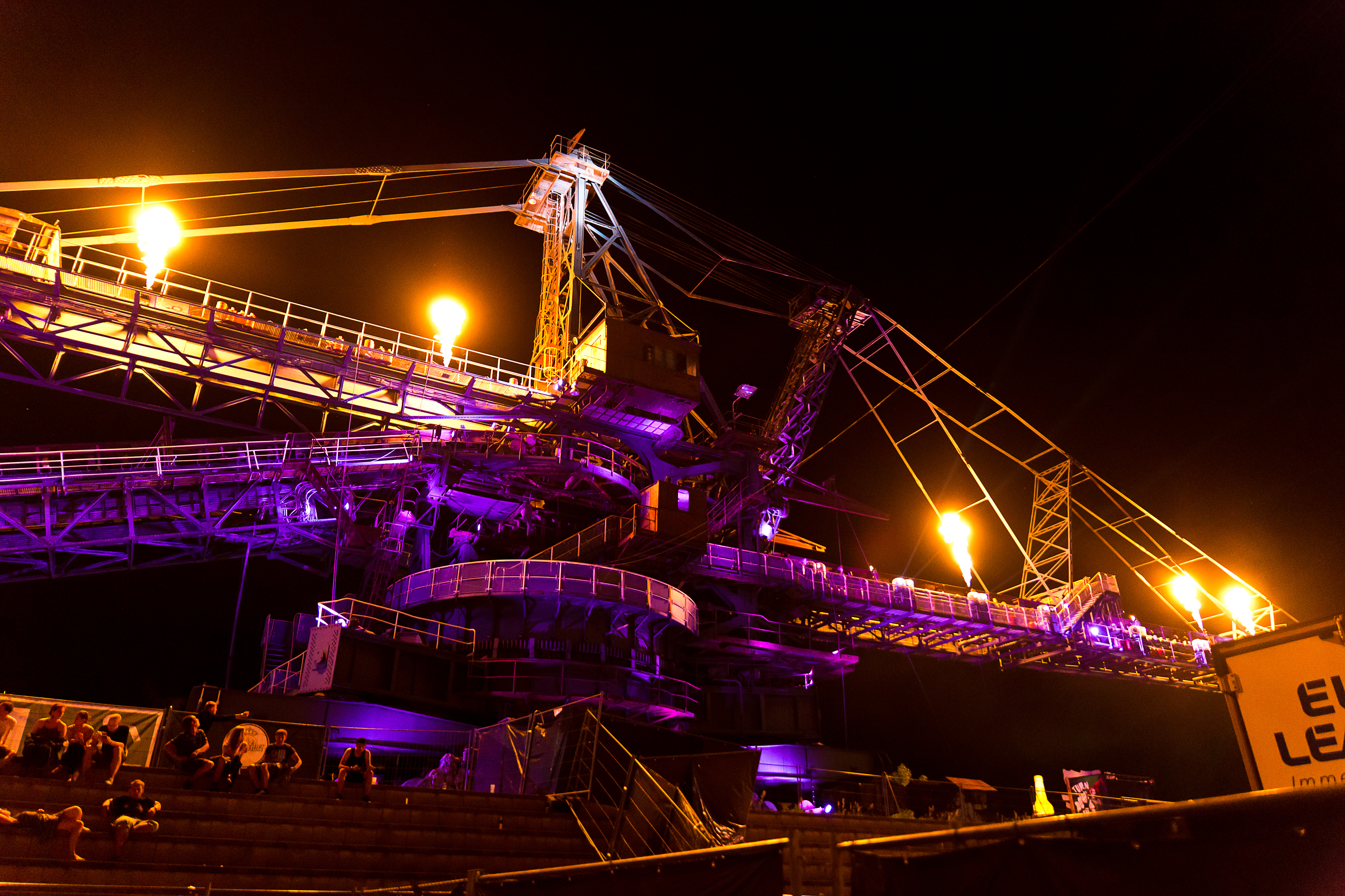 Impressions from Melt! festival 2015 in Ferropolis/Germany.